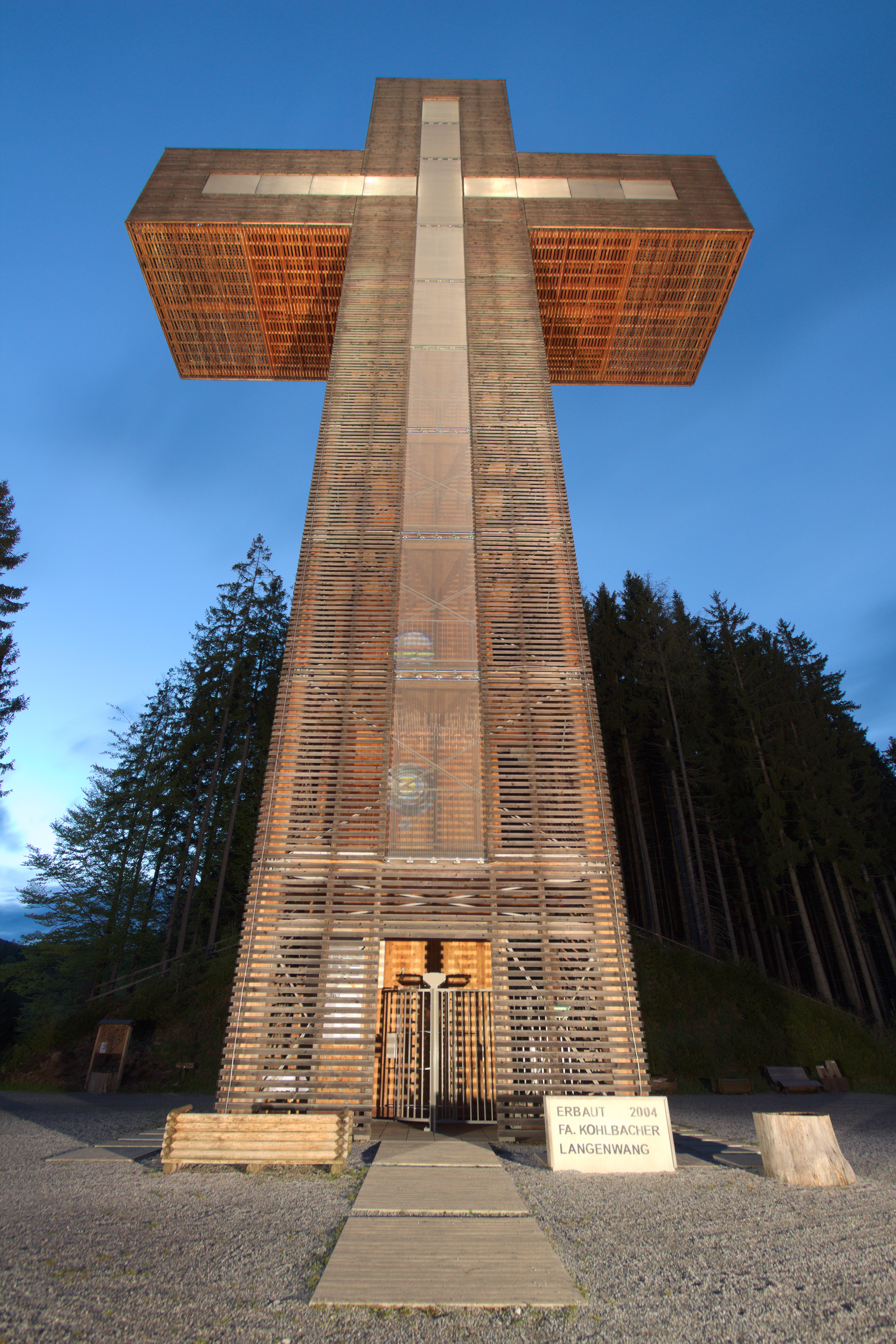 Night view of the Pilgrims Cross on the Mount of Olives in Veitsch, Styria, Austria